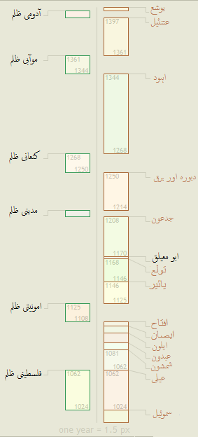 Biblical judges in urdu